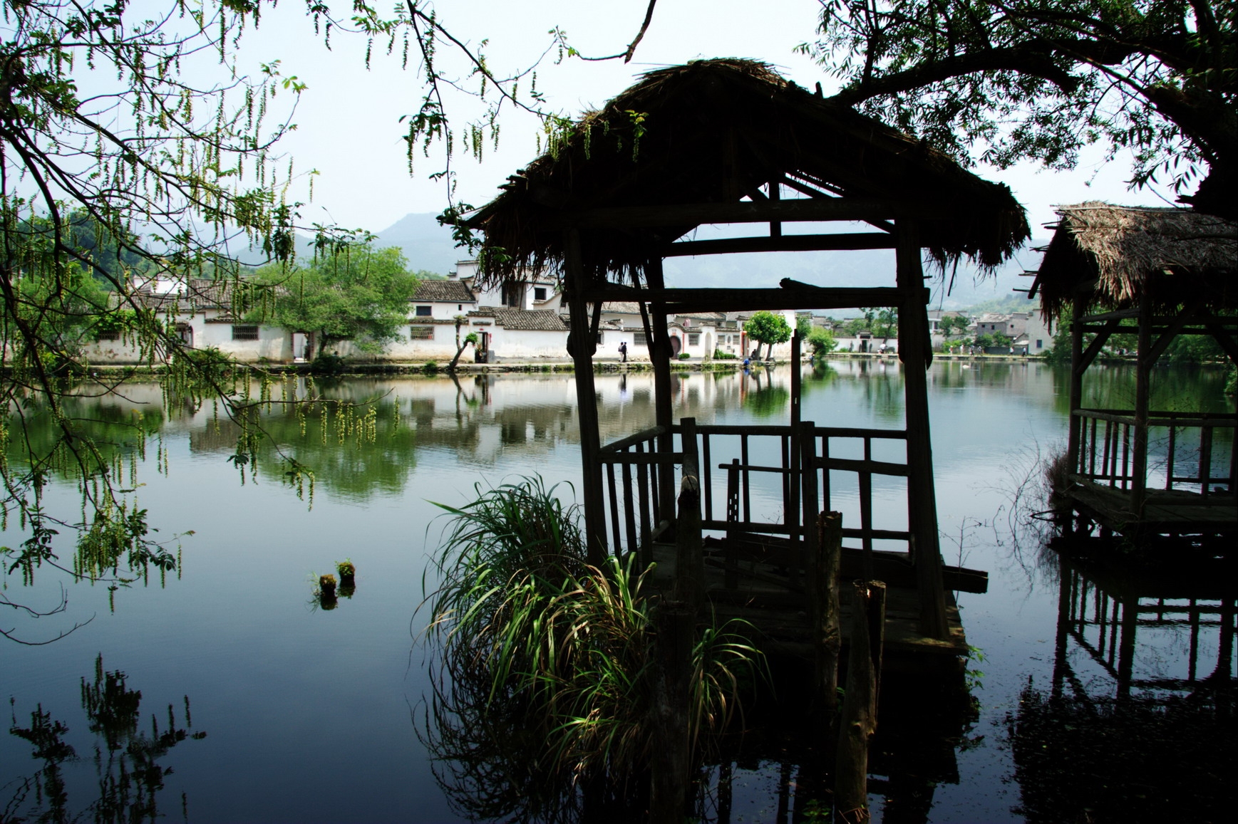 Nanhu Lake, Hongcun Village, Anhui, China Photo taken during my travels through China.